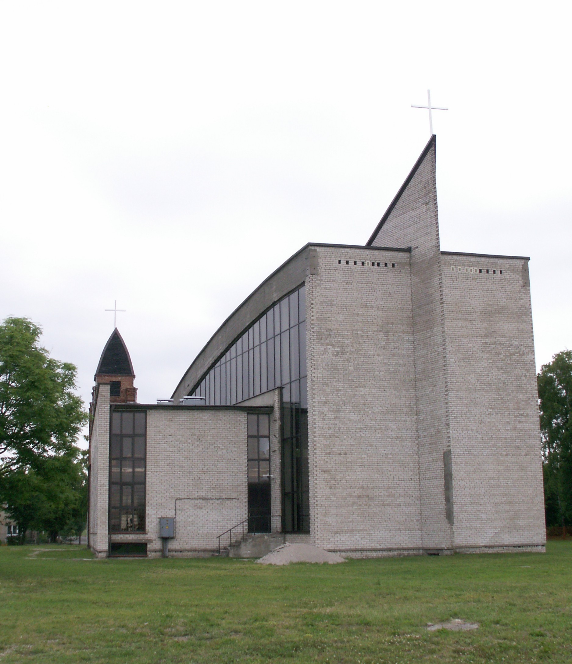 Churches in Pagėgiai, Pagėgiai district, Lithuania